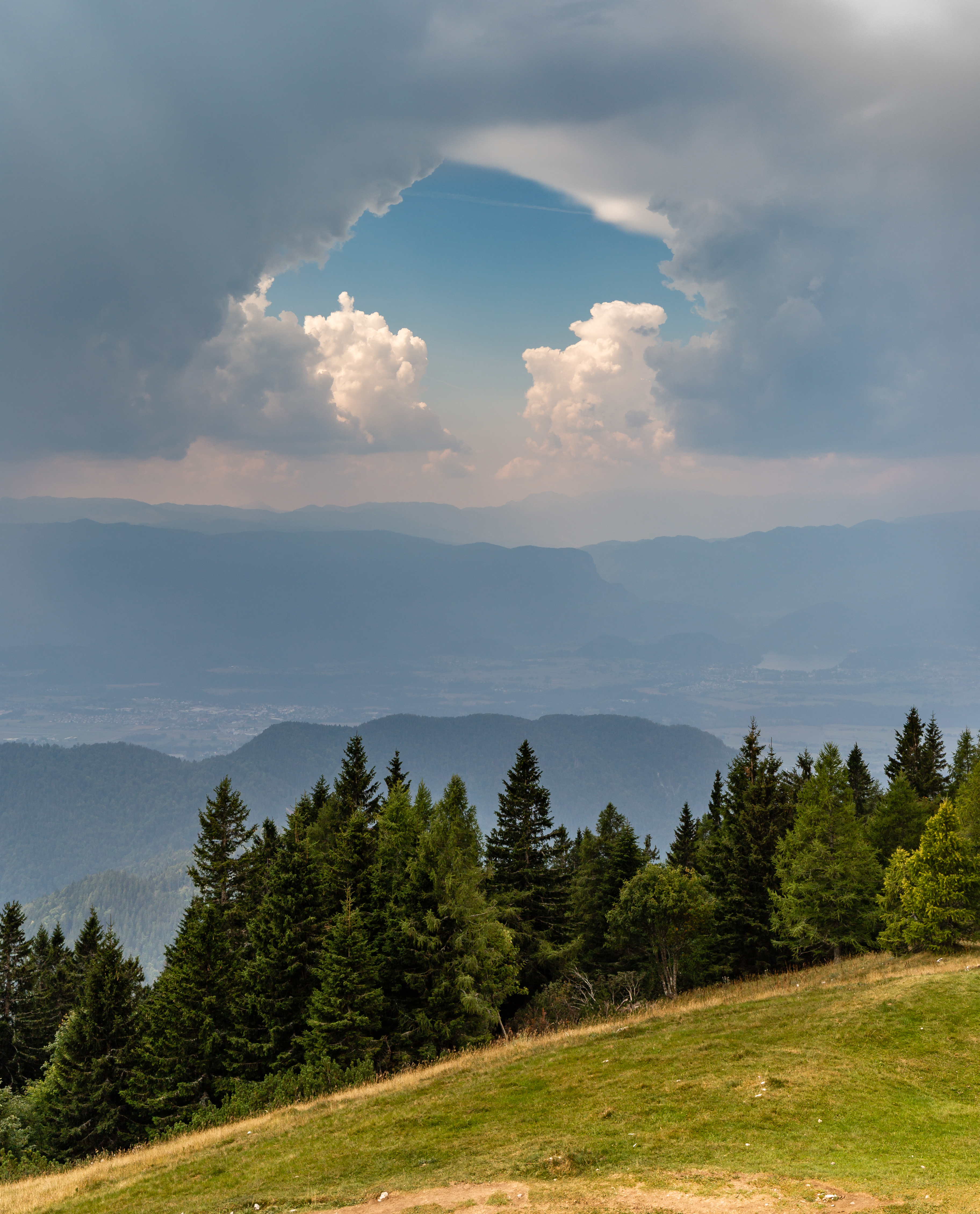 Trees and clouds with a hole. The picture was taken just before a storm on Mt. Begunjščica, Karawanks, Slovenia